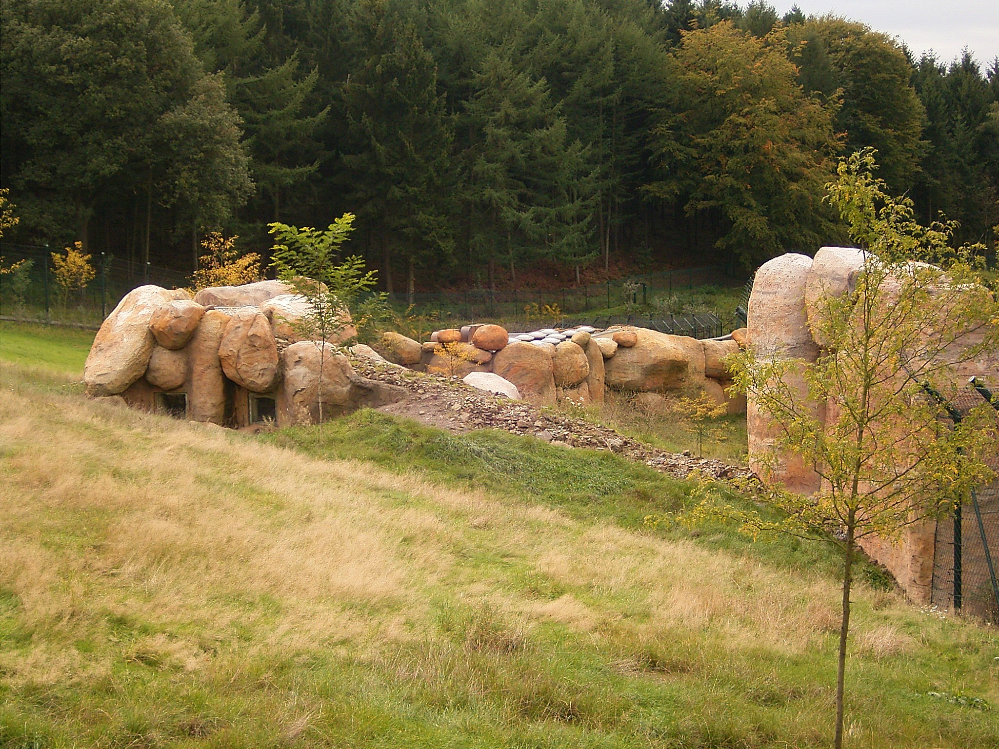 Zoo Wuppertal: landscape of the new lion area